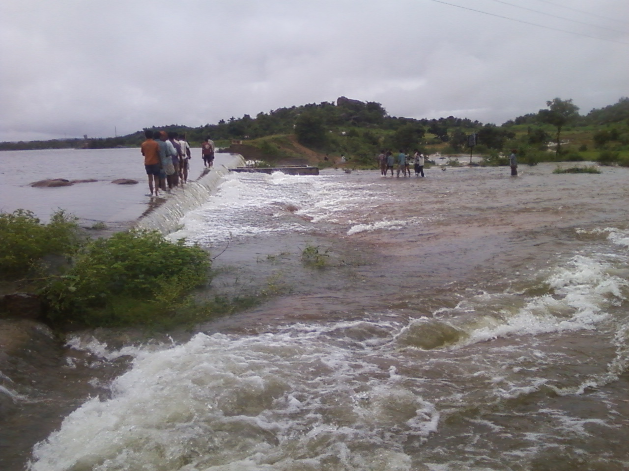 this is the photo when the Pond of this village is overflowing...